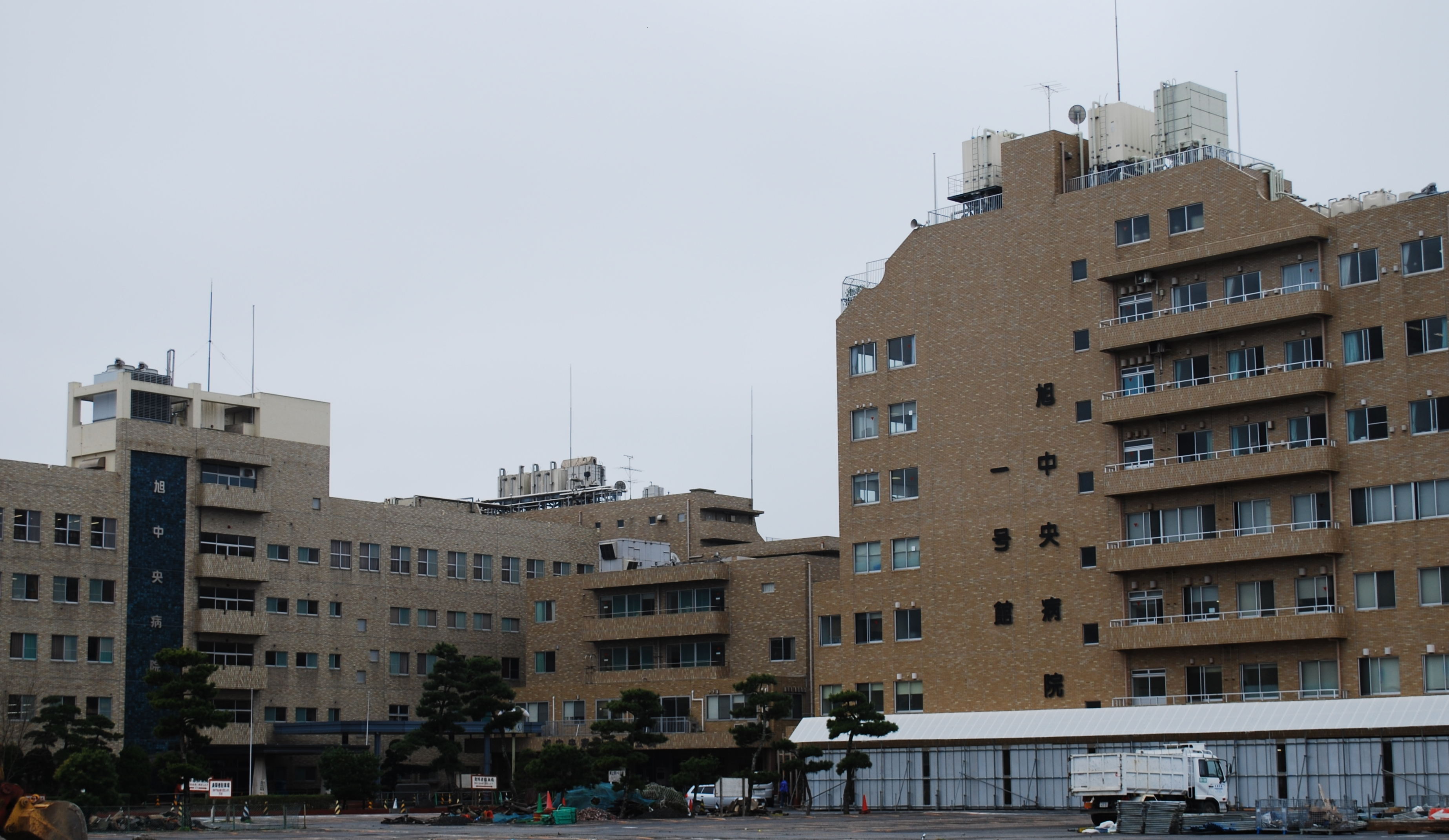 Asahi-chuo-hospital,Asahi-city,Japan